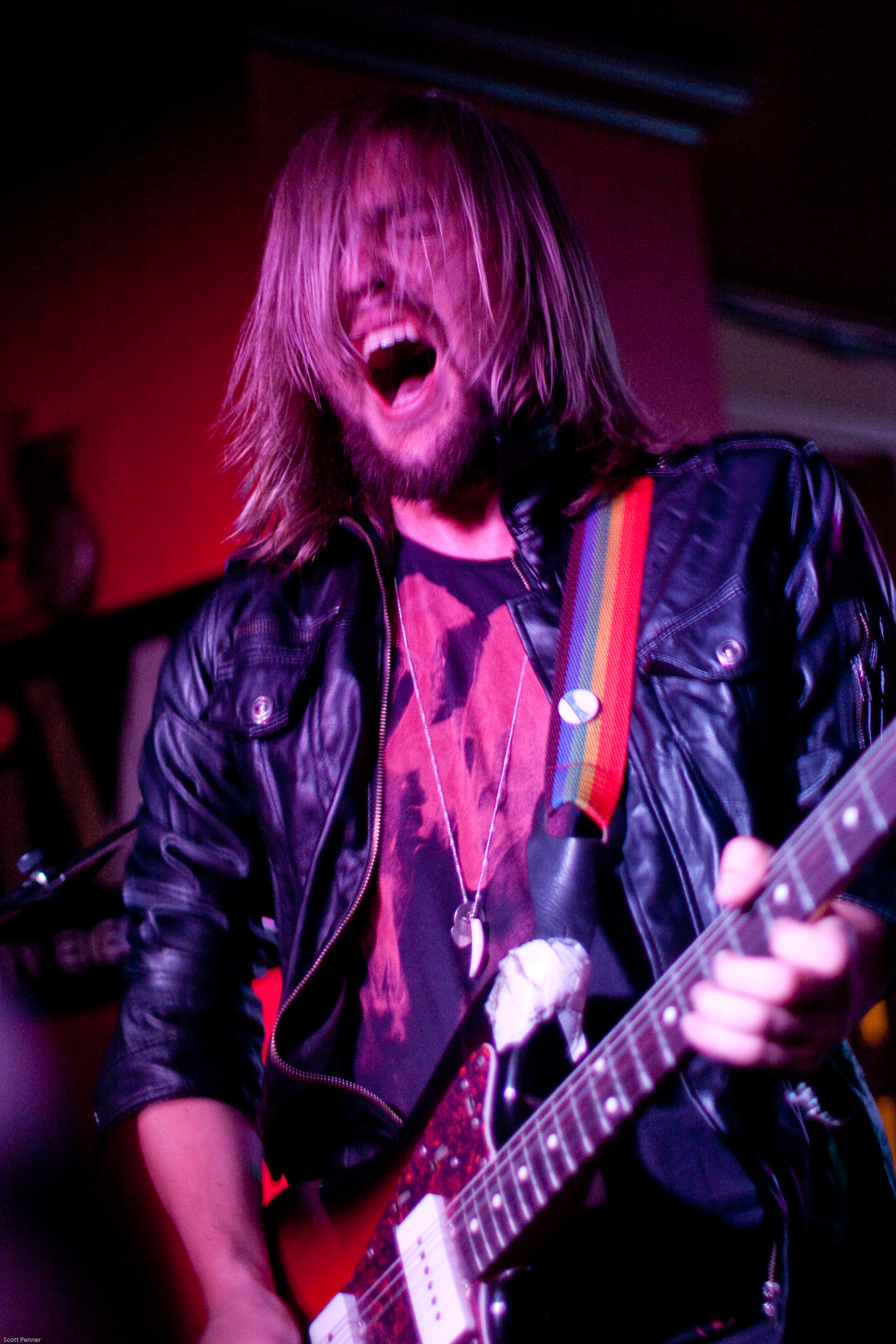 Thursday June 18th Russell Marsden Emma Richardson Matt Hayward